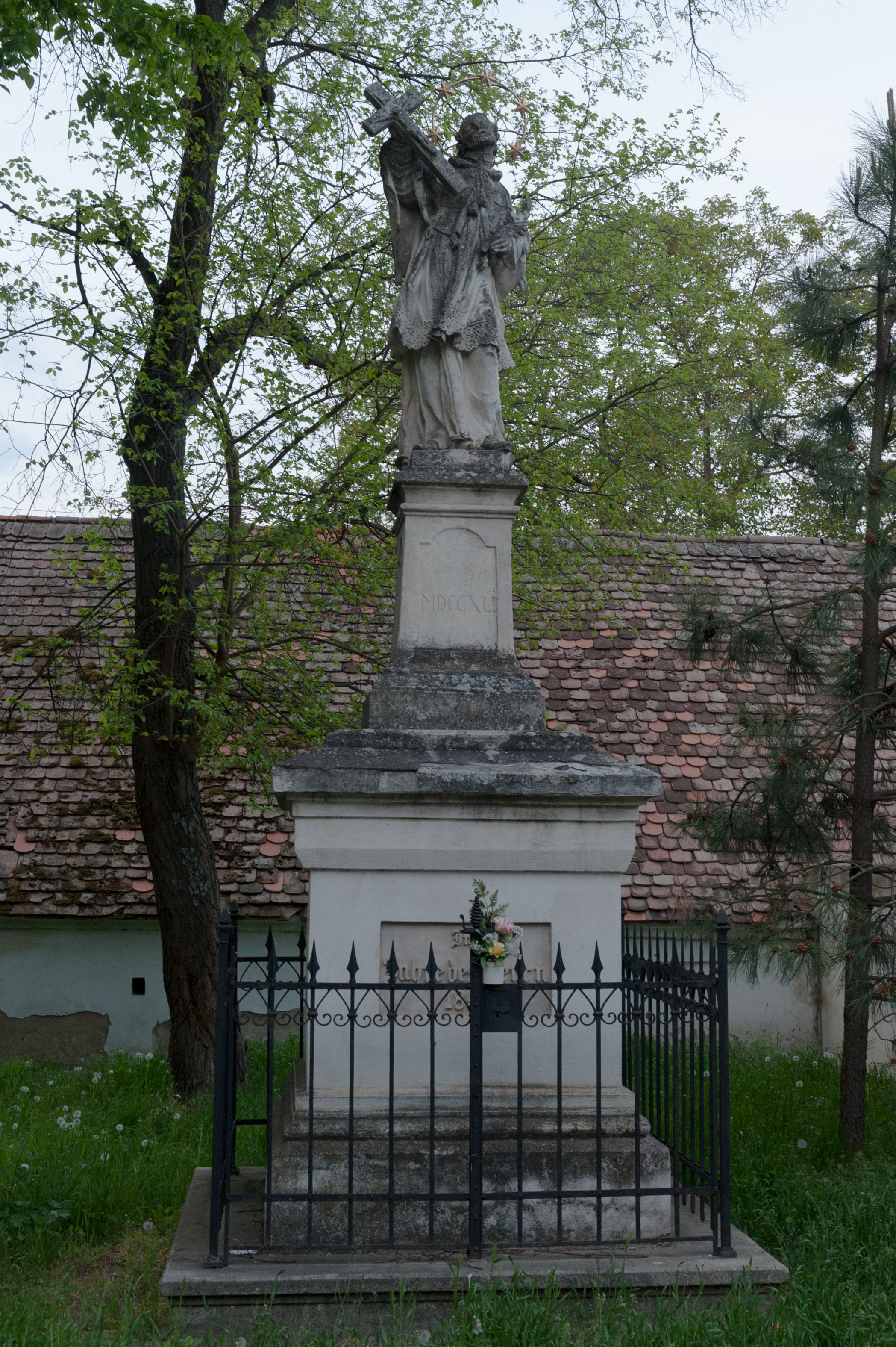 Božice, České Křídlovice, statue of John of Nepomuk.